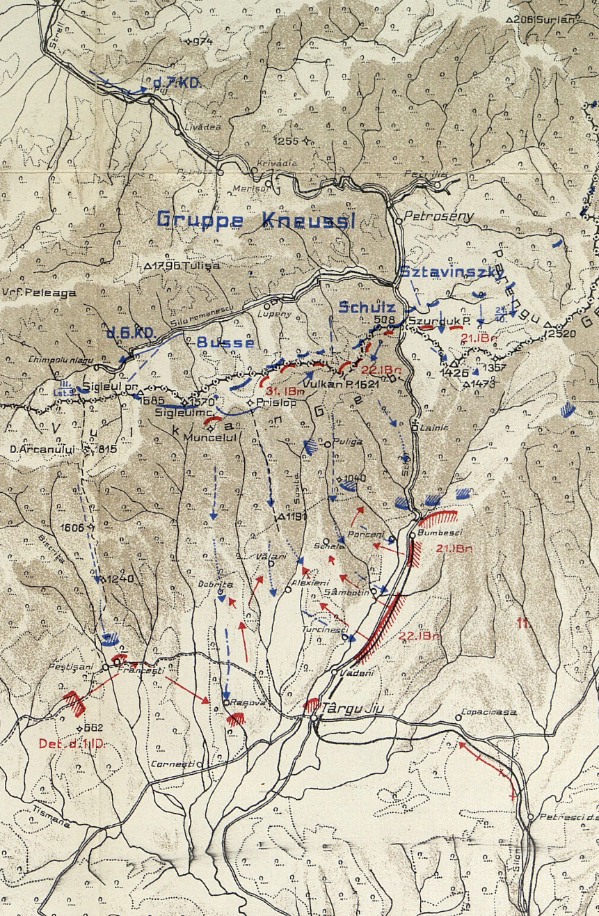 Romanian Front in WWI - The first batle from Valea jiului, 1916